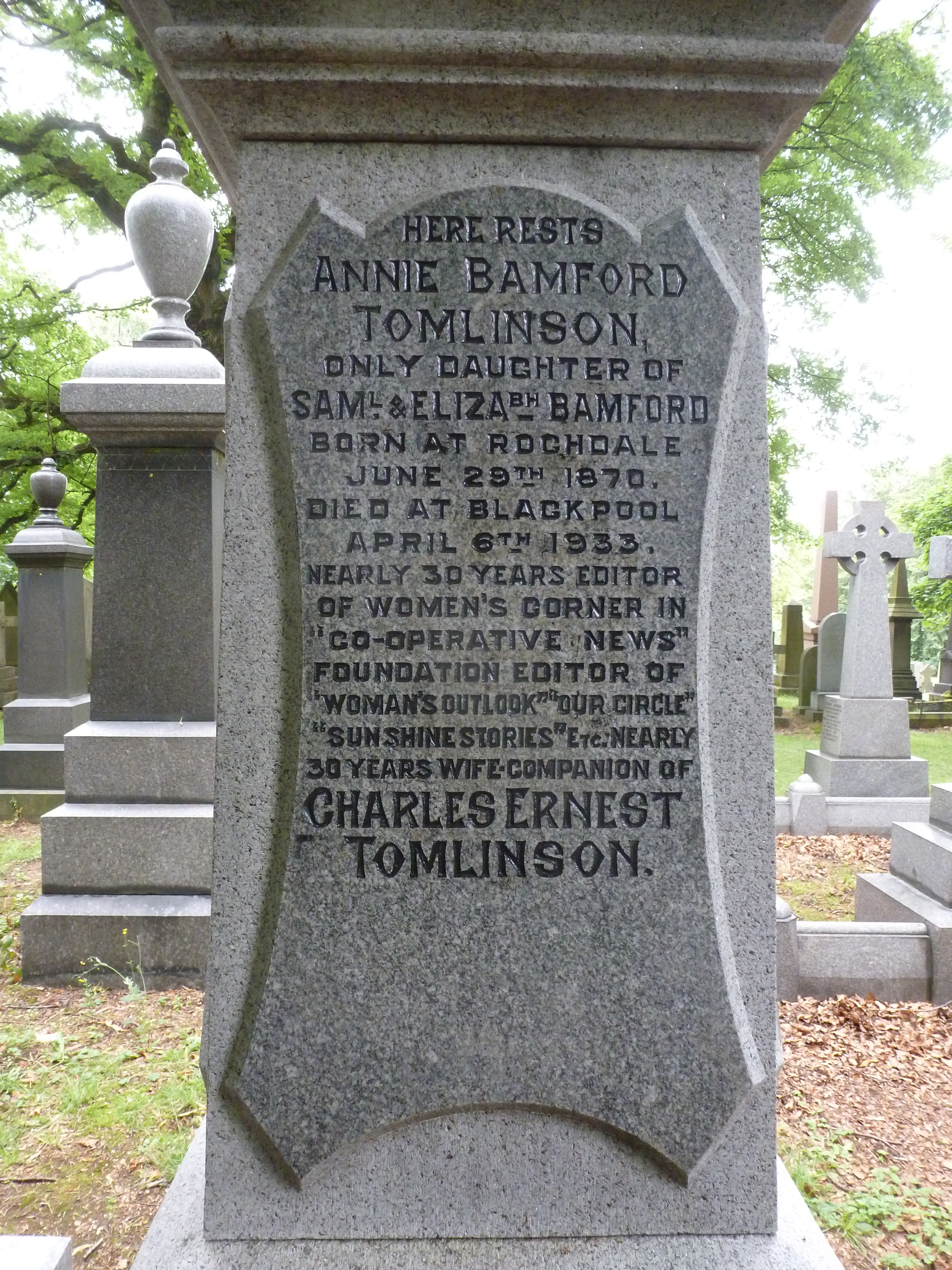 The written word being of such vital importance to the development of any movement, the Bamford family can be considered as having contributed significantly to the Co-operative movement. Three members of the family were editors of Co-op newspapers and father and son, Samuel and William, between them acted as Editor of Co-operative News' for 45 years, while Samuels' daughter, Annie (Tomlinson) was Editor of the Women's Corner of the paper for nearly 30 years. The memorial inscriptions tell the individual stories. Rochdale cemetery, Bury Road.